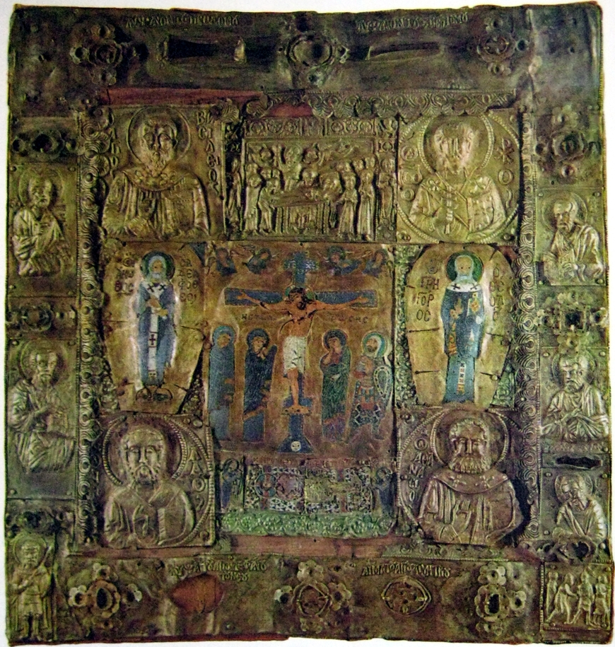 Composite icon with the crucifixion, Christ, saints and gospel scenes. Enamel 11-12 c., silver 11, 14 c. Multiple icon from several separate parts of different date. Hermitage.